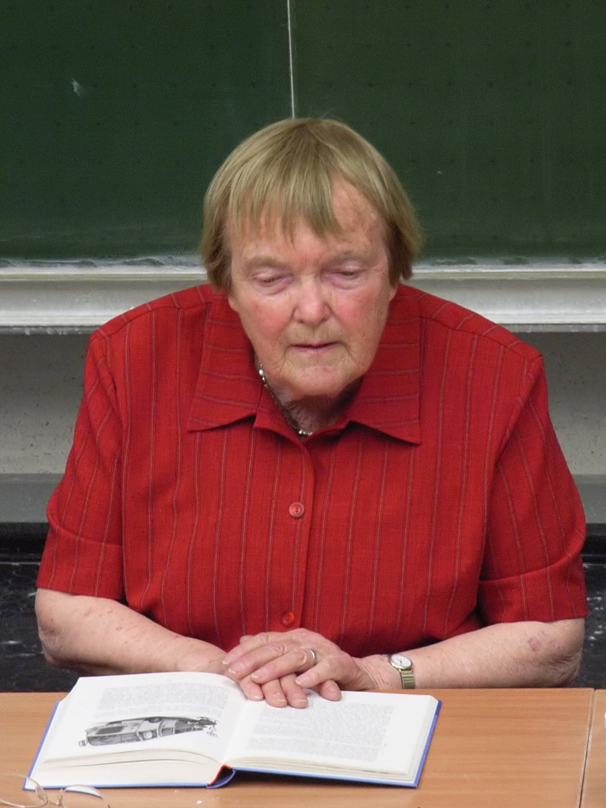 Gudrun Pausewang at a reading at Bielefeld University.